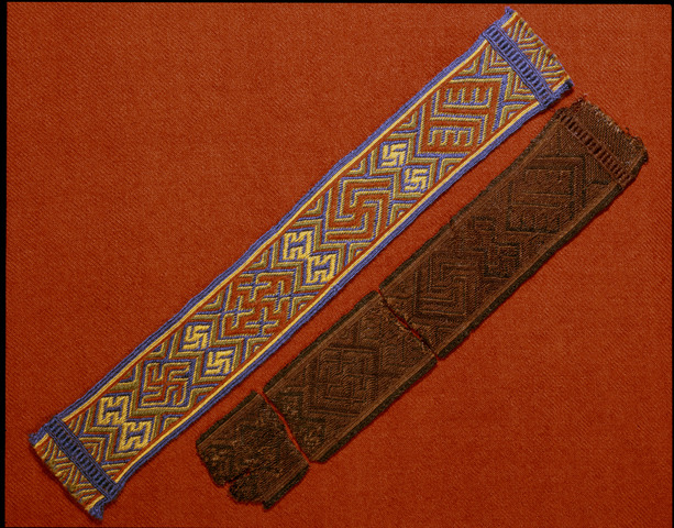 Baldric of the Snartemo-sword, recreation left, orinigal right